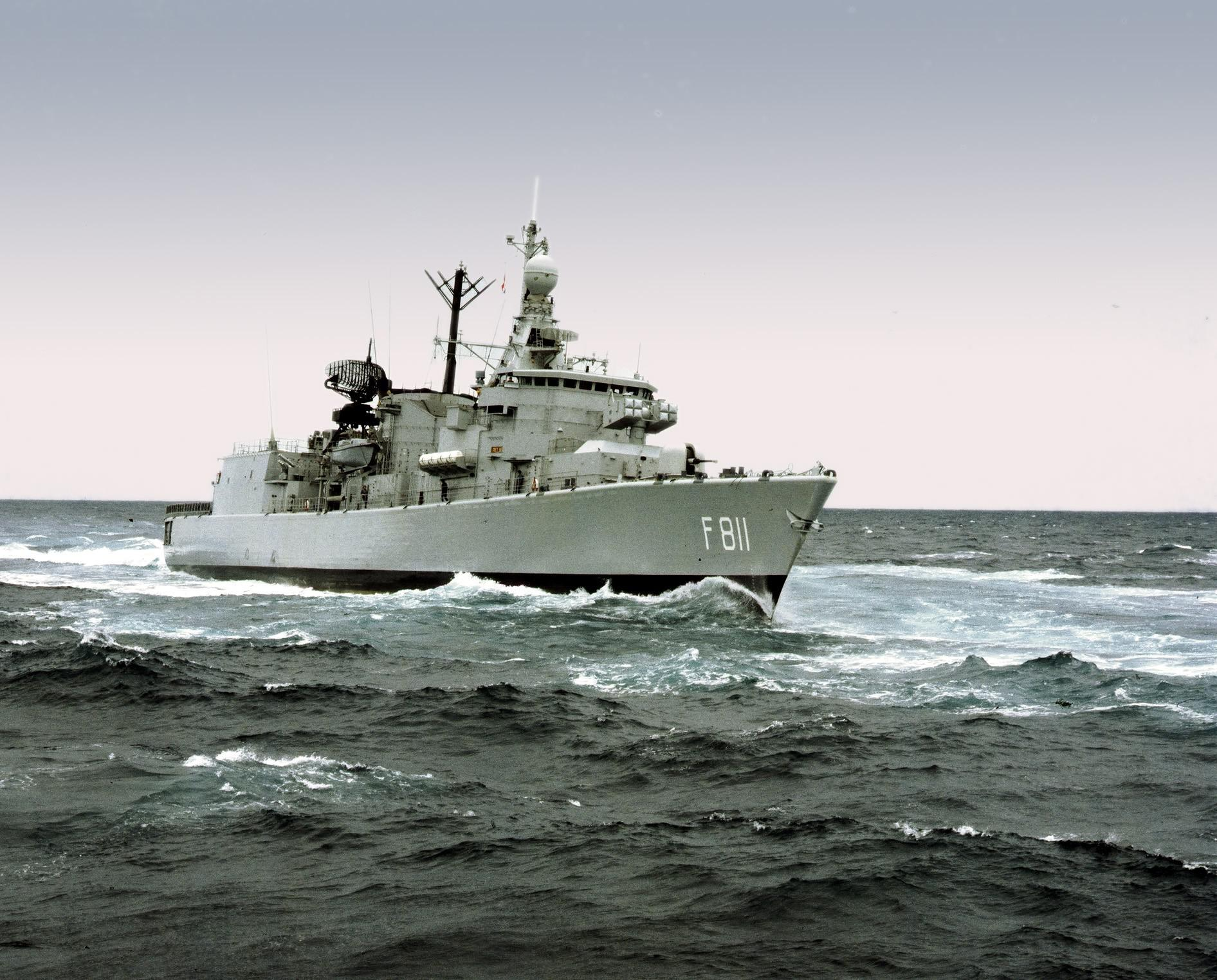 HNLMS Piet Hein (F811)